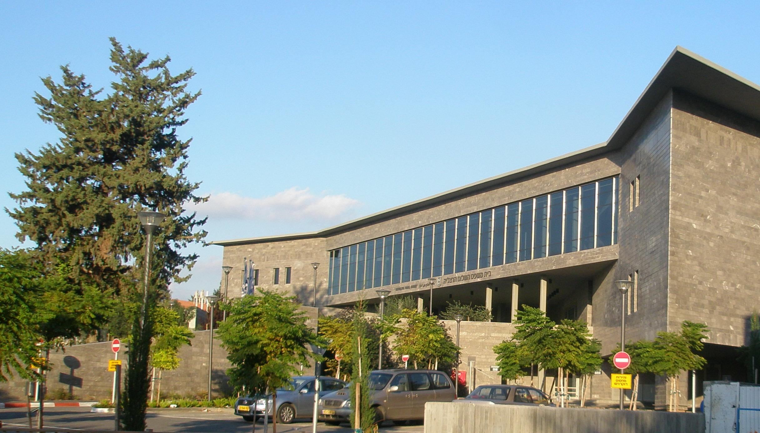 Hashalom court, Herzliya